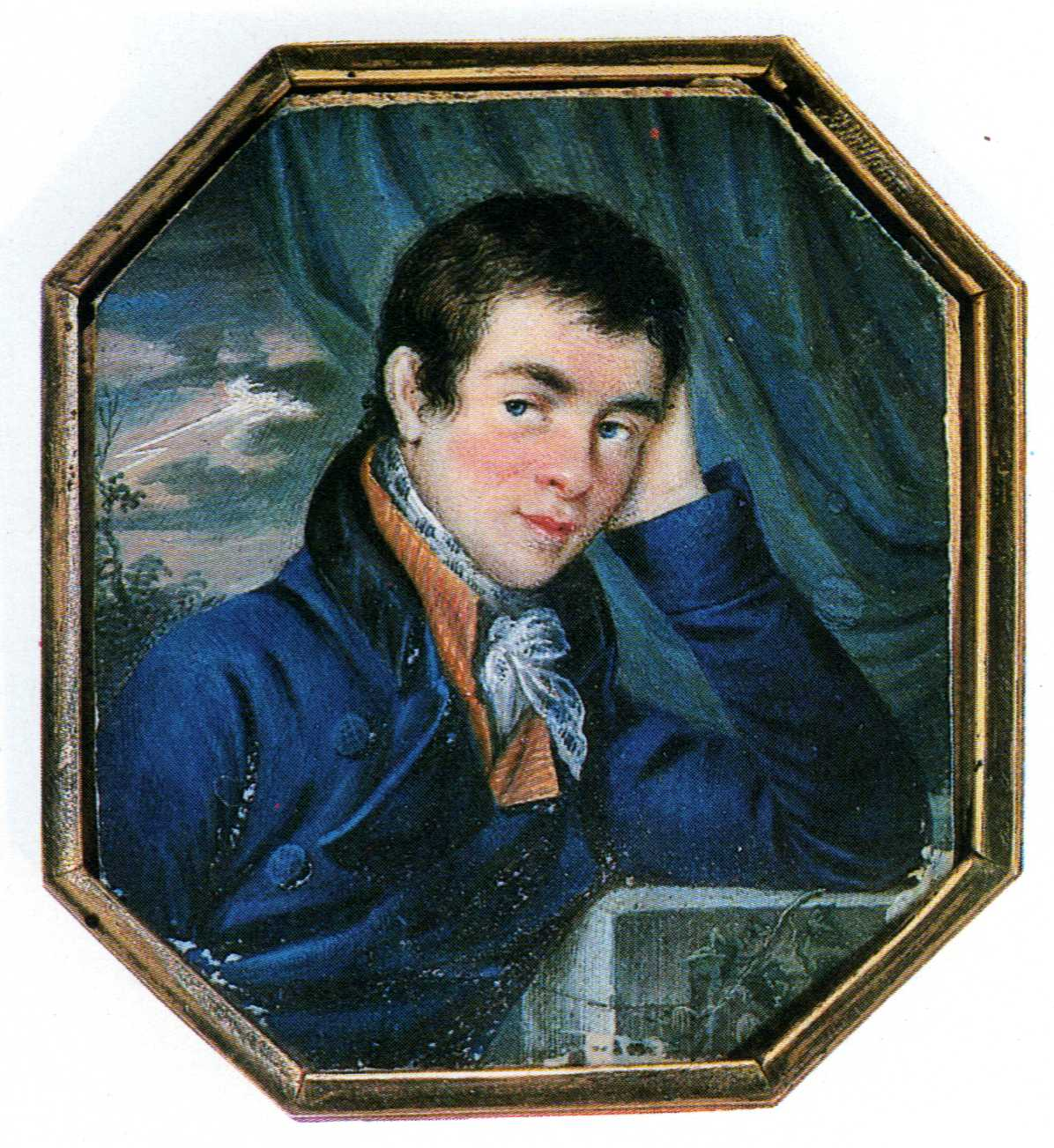 Vasilii Nazarevich Karazin, 1773-1842